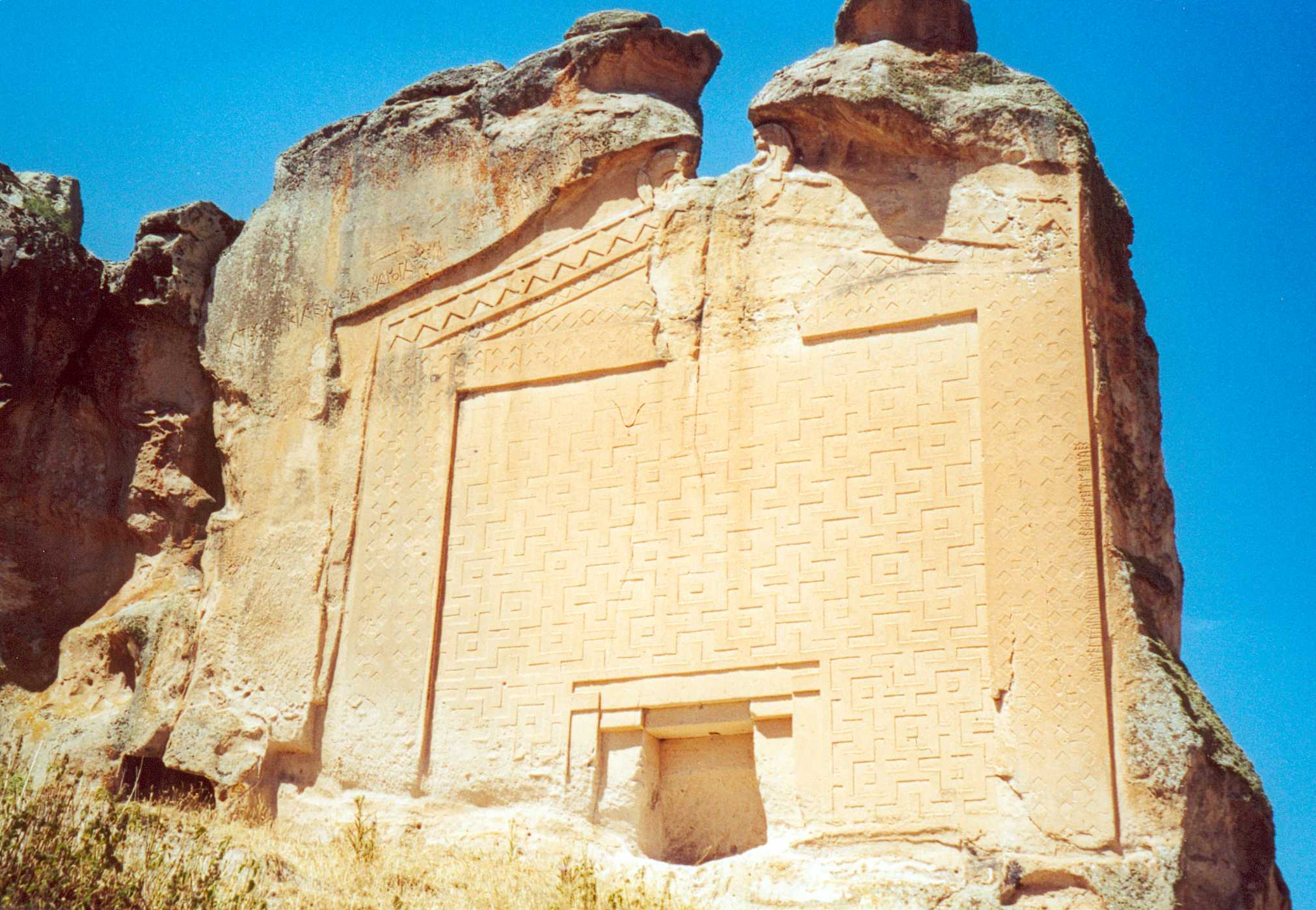 Midas Tomb at the archeological site Midas City (Midas Şehri). The site is in the village of Yazilikaya, midway between Eskişehir and Afyon. See also a close-up of the inscription. The relief is 17 meters high and dates from the 6th century BC.